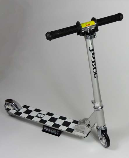 image of a freestyle roller